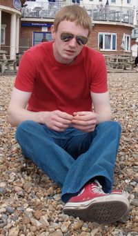 Photograph of Ian Cumberland